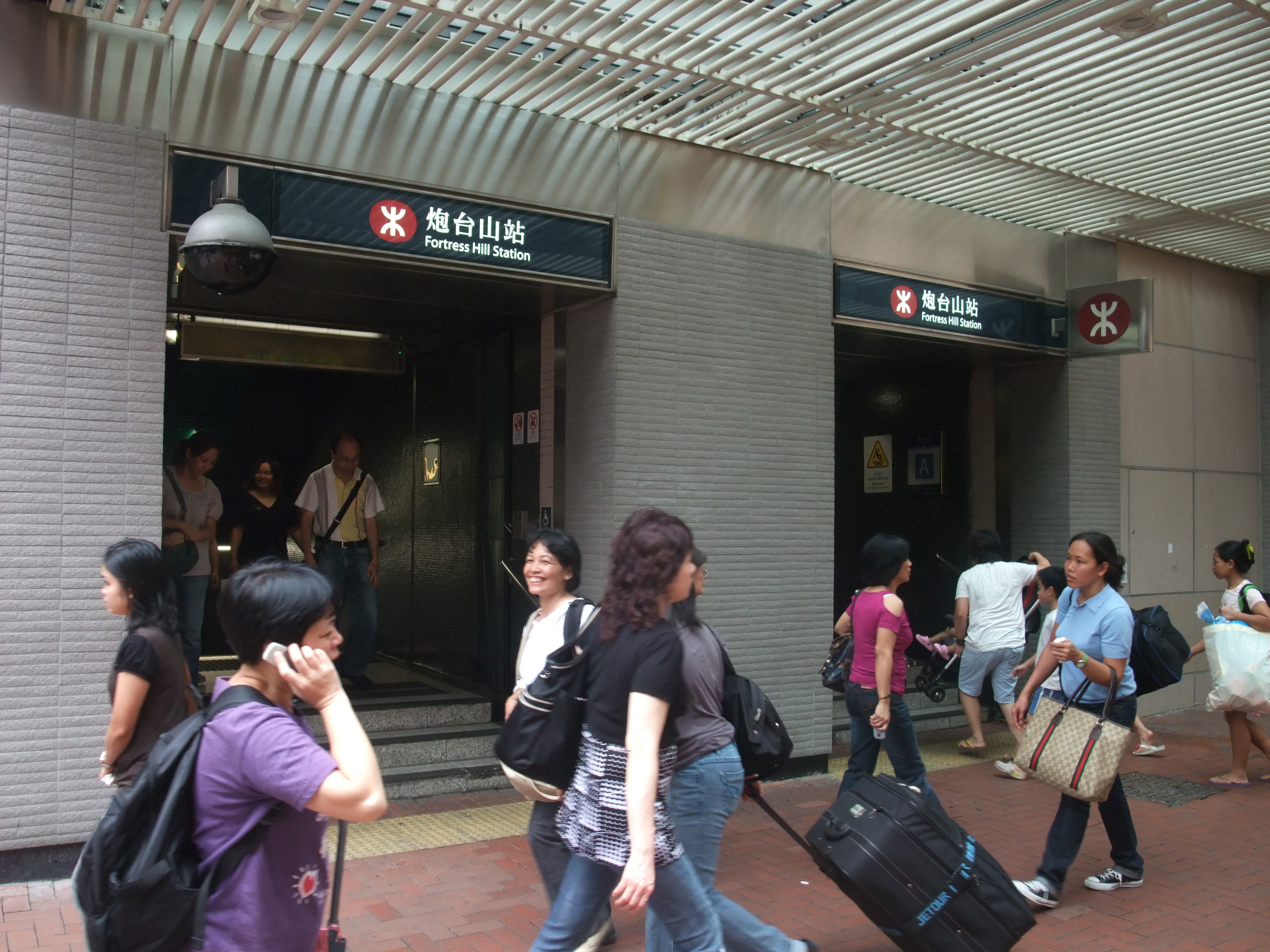 Photo of Fortress Hill Station Exit A